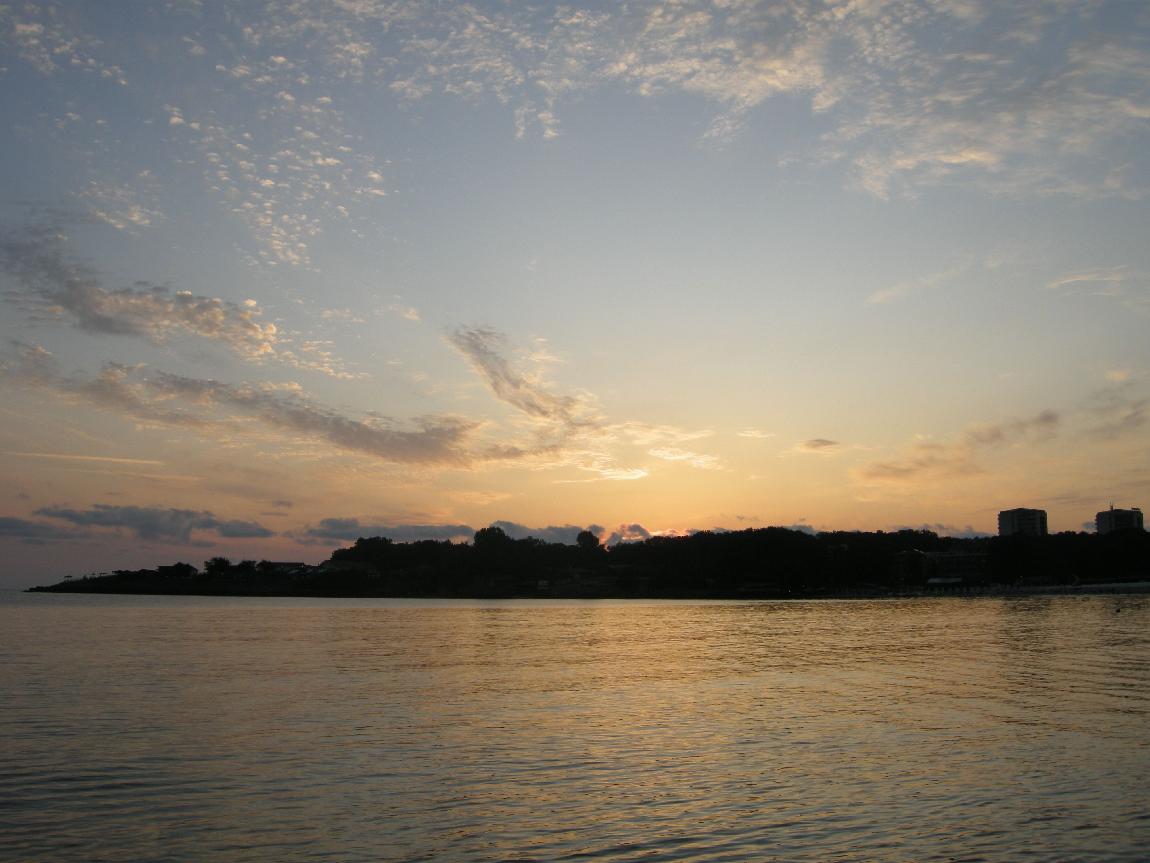 Sunrise at Atliman - the northern gulf and beach of Kiten resort at Black Sea, Bulgaria.